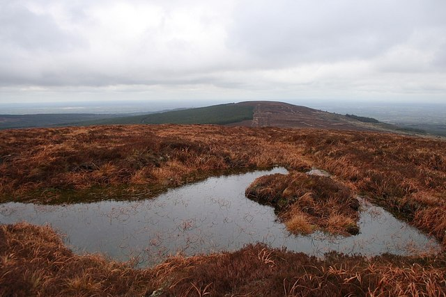 Summit pond Summit pond on Baunreaghcong looking towards Ridge of Capard.